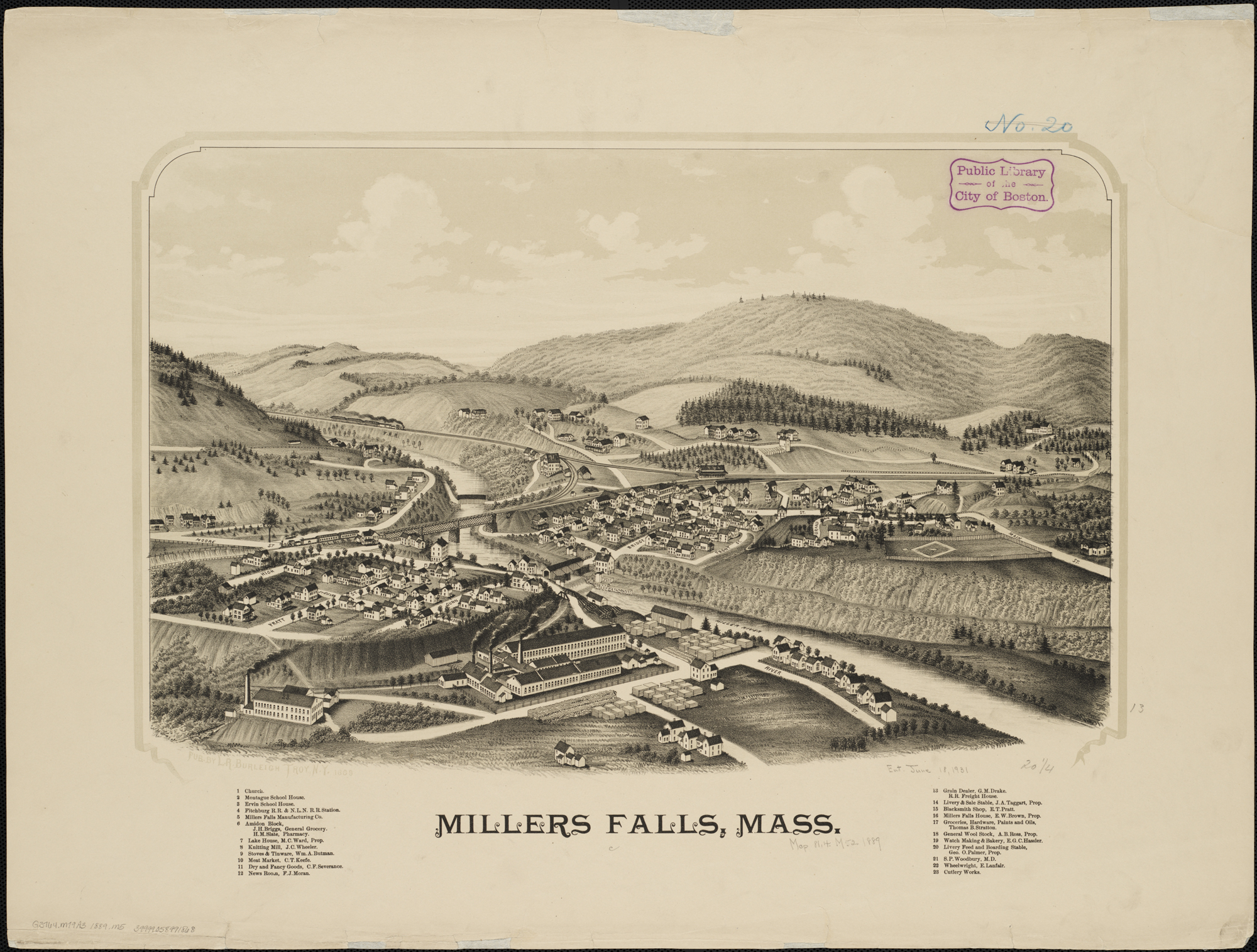 Zoom into this map at . Publisher: L.R. Burleigh Date: 1889 Location: Millers Falls (Mass.) Scale: Not drawn to scale. Call Number: G3764.M79A3 1889.M5